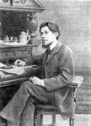 Russian writer Alexander Pavlovich Chekhov, brother of Anton Chekhov.